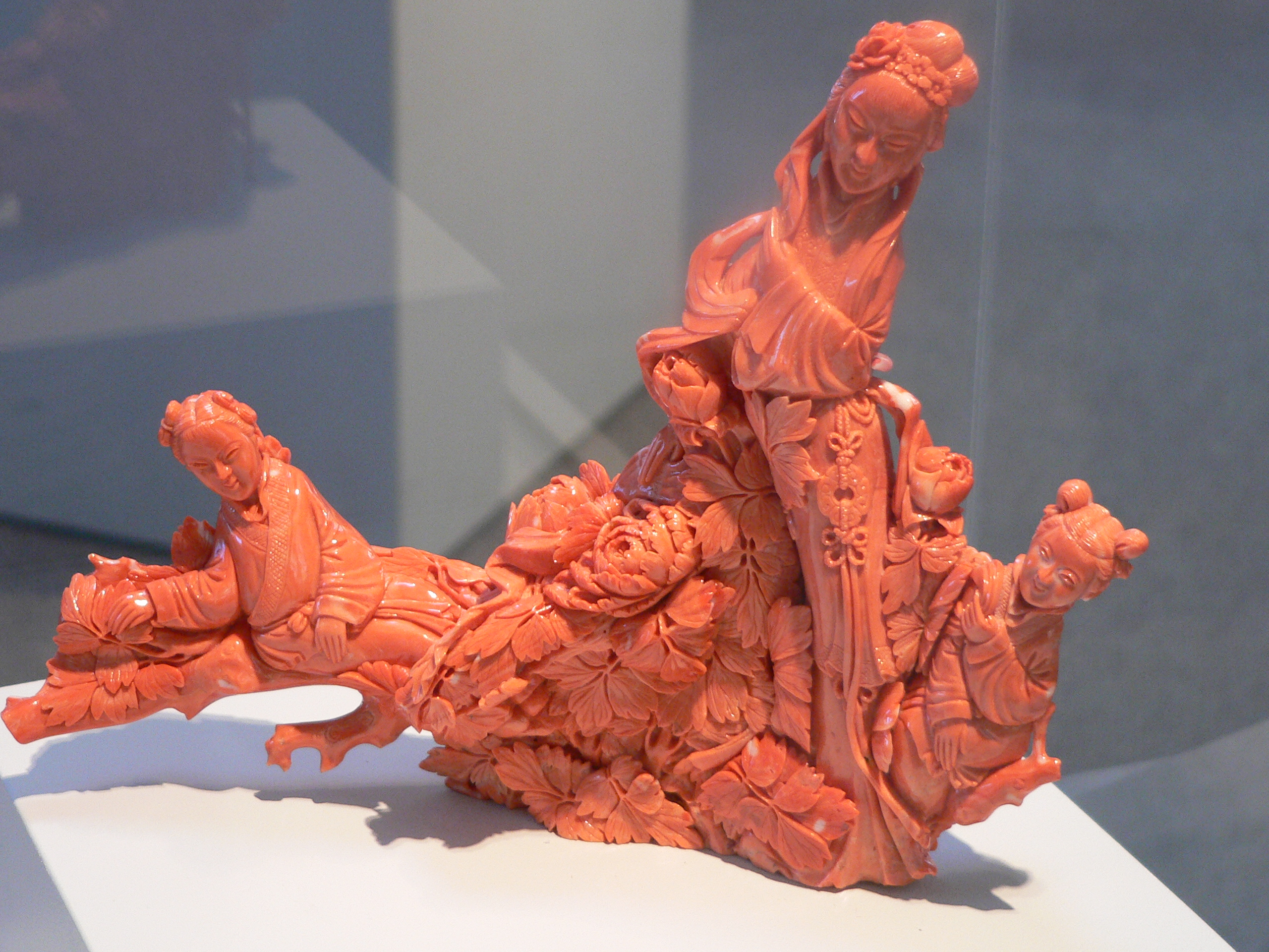 China, 20th century Mountain with attendants Coral Gift of Mr and Mrs Charles D. Field, 1988 Gift of Alice Meyer Buck, 1968